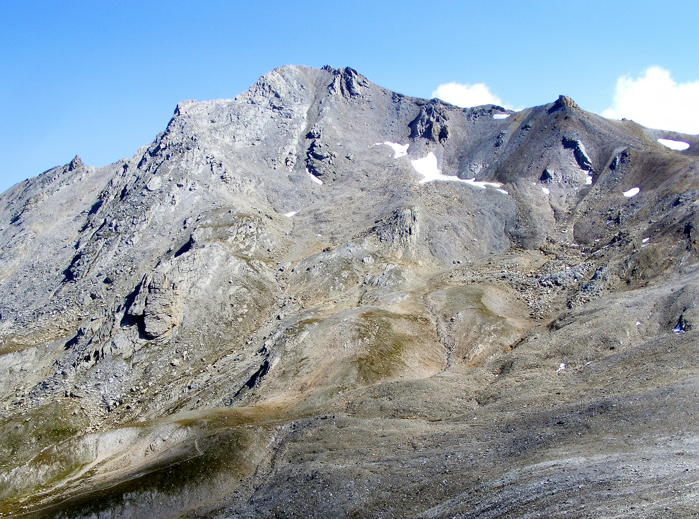 Punta Sommeiller from colle Valfredda Occidentale